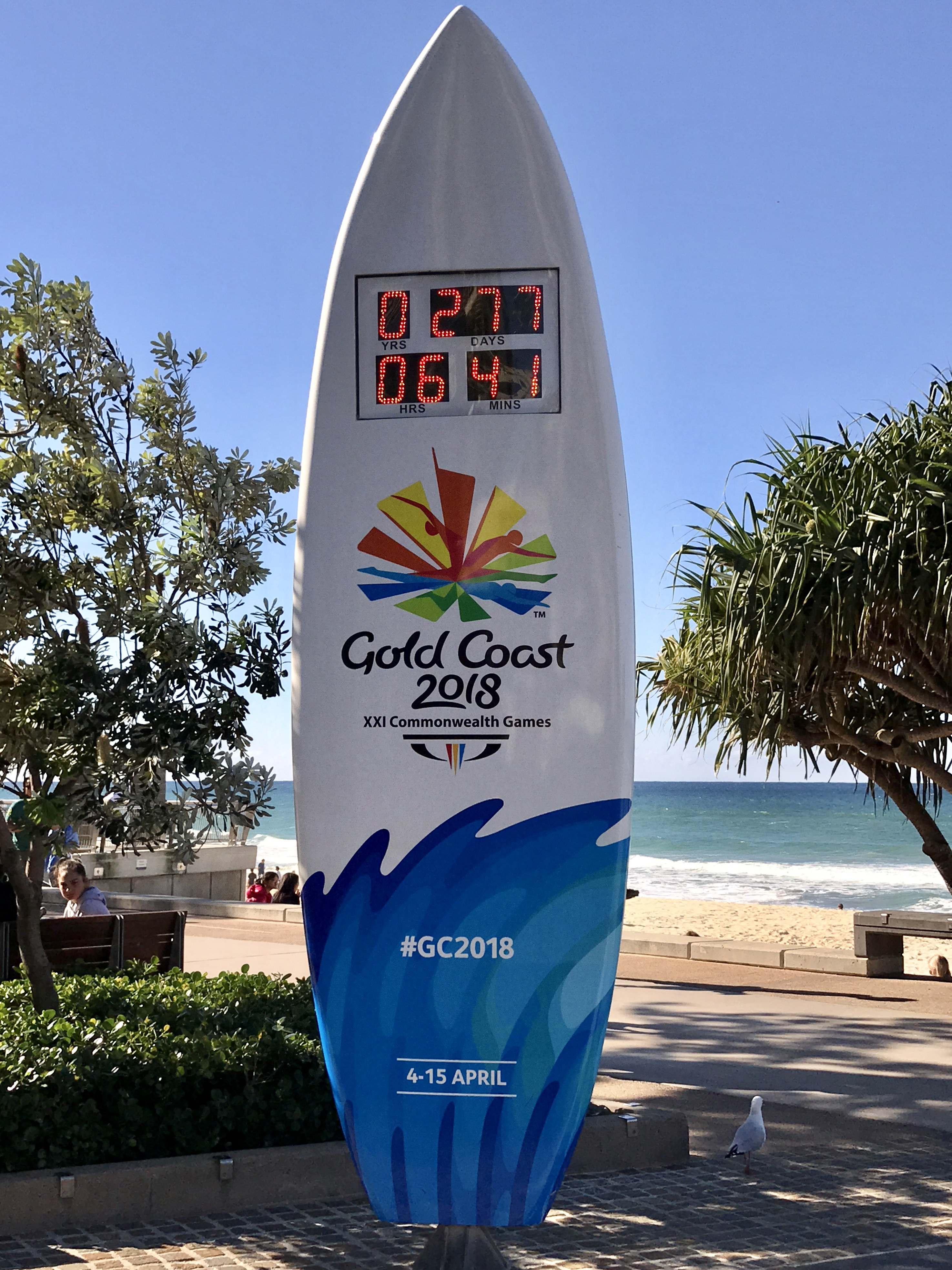 2018 Commonwealth Games countdown clock in July 2017